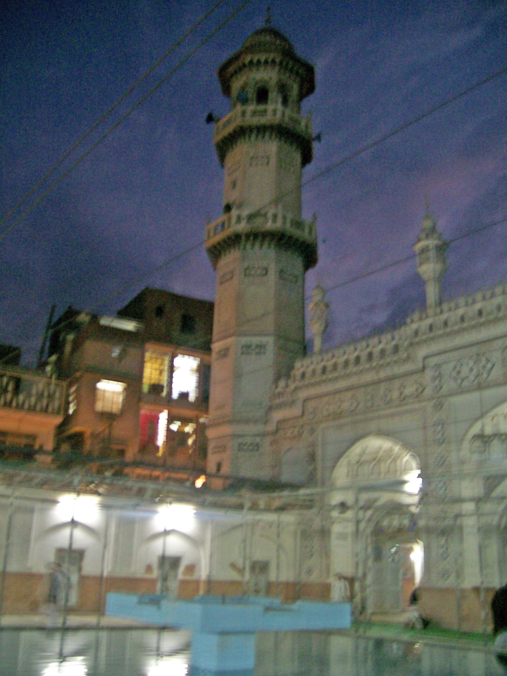 The Mosque of Mohabat Khan in Peshawar, Pakistan.